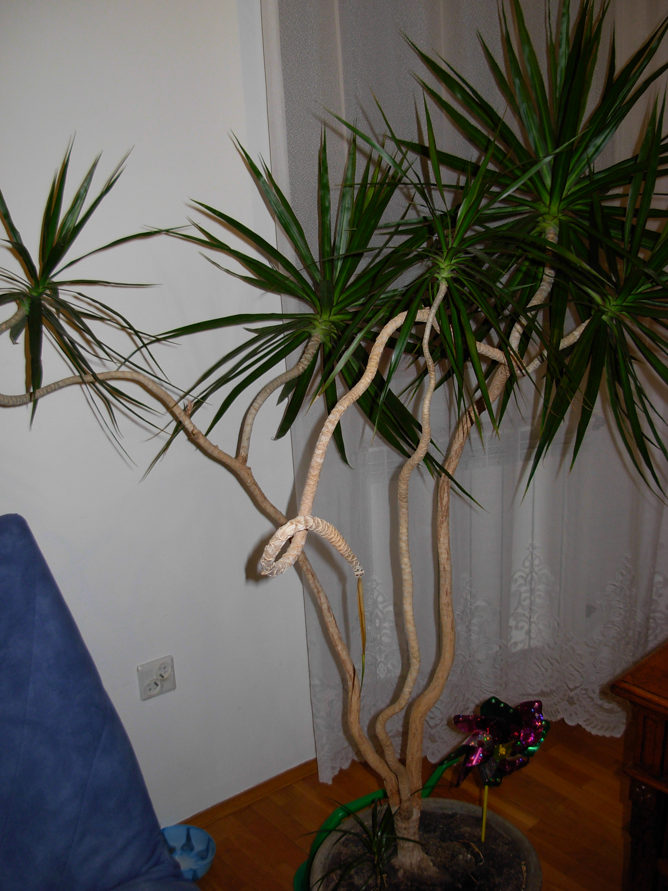 My plant, my photo. Dracaena marginata, not a palm.